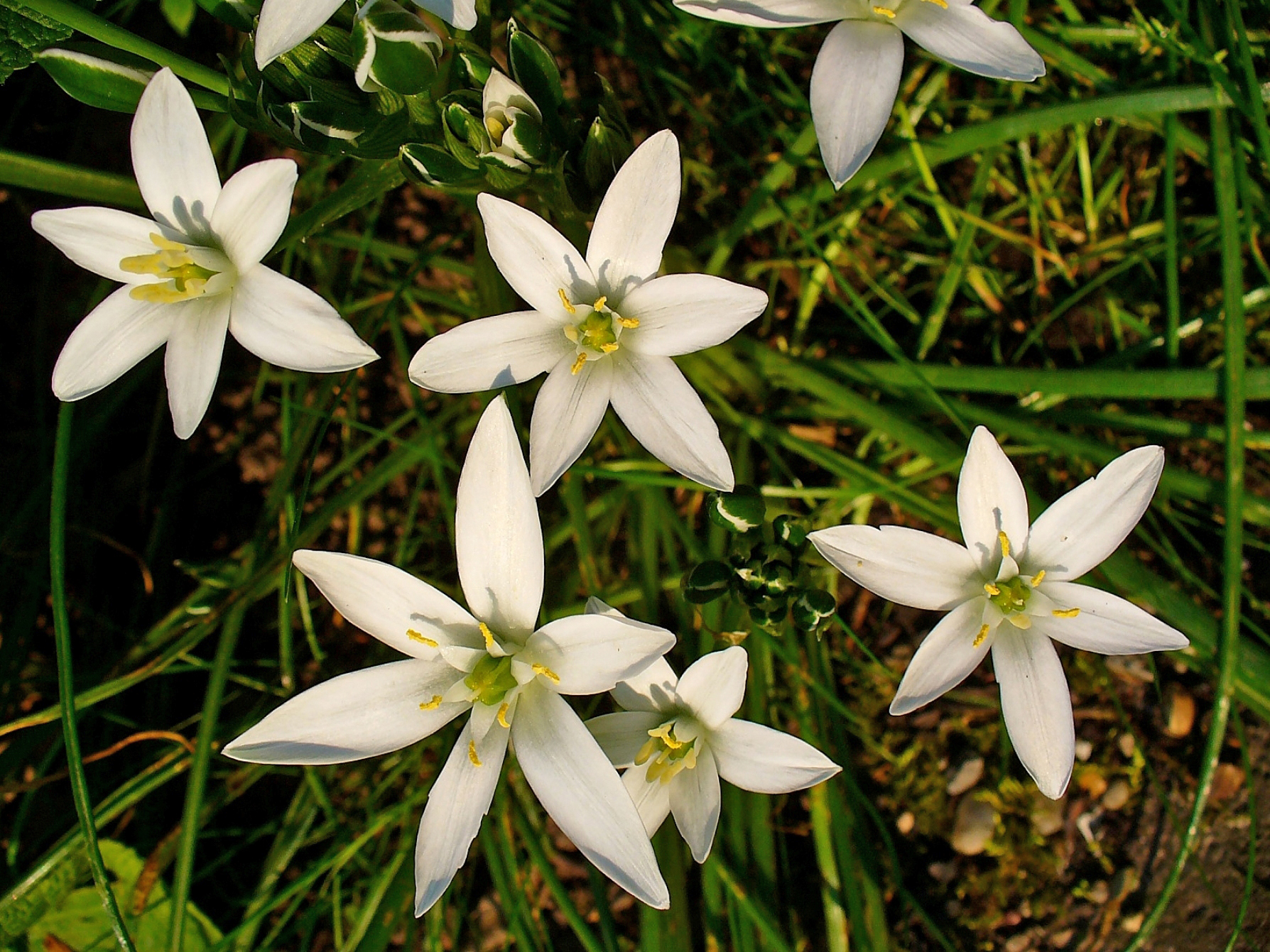 Ornithogalum umbellatum, Hyacinthaceae, Star-of-Bethlehem, Grass Lily, flowers. Karlsruhe, Germany.